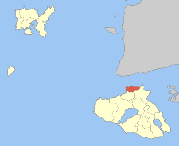 Locator map of Mithymna Thermis municipality (Δήμος Μήθυμνας) in Lesbos prefecture (Νομός Λέσβου) in Greece.